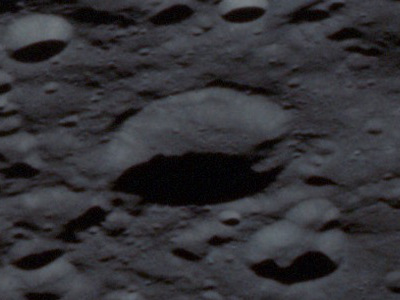 Oblique view of Mills, on the far side of the moon. North at left.